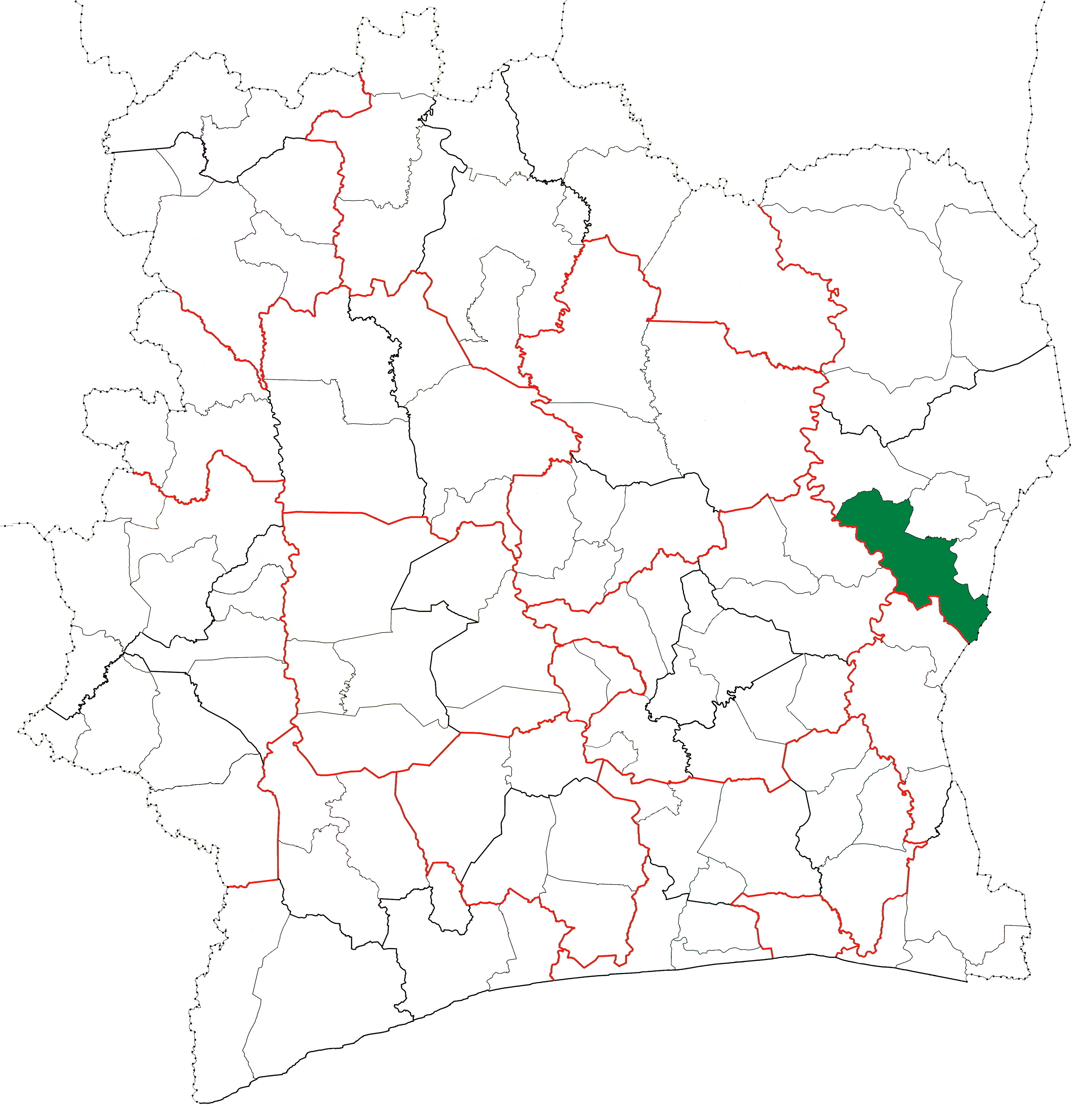 Locator map for Koun-Fao Department in Côte d'Ivoire.